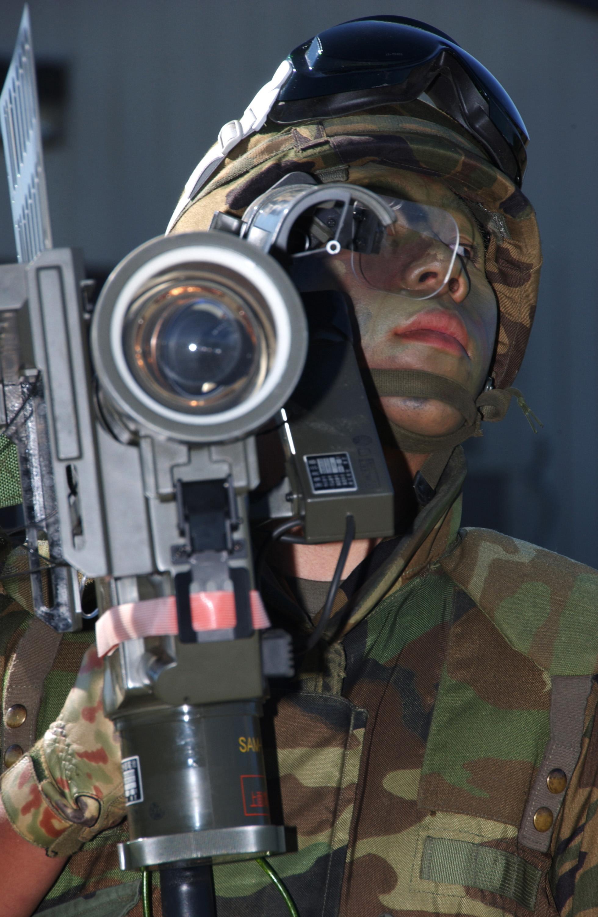 EIELSON AIR FORCE BASE, Alaska - Staff Sgt. Kenichira Watanabe, missile operator, Japanese Air Self Defense Force, aims a Type 91 Sam-2 Surface to Air missile launcher at enemy aircraft on the Pacific Alaskan Range Complex on July 24 during Red Flag-Alaska 07-3. With 67,000 square miles of rugged terrain, Japanese Forces are able to train tracking low flying aircrafts against a mountain back drop; this type of training is unavailable to them at their home station. (U.S. Air Force Photo by Airman 1st Class Jonathan Snyder/Released)